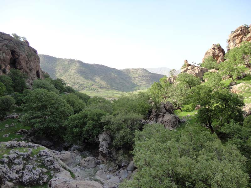 poshte lart- sharestane badre- ostane ilam